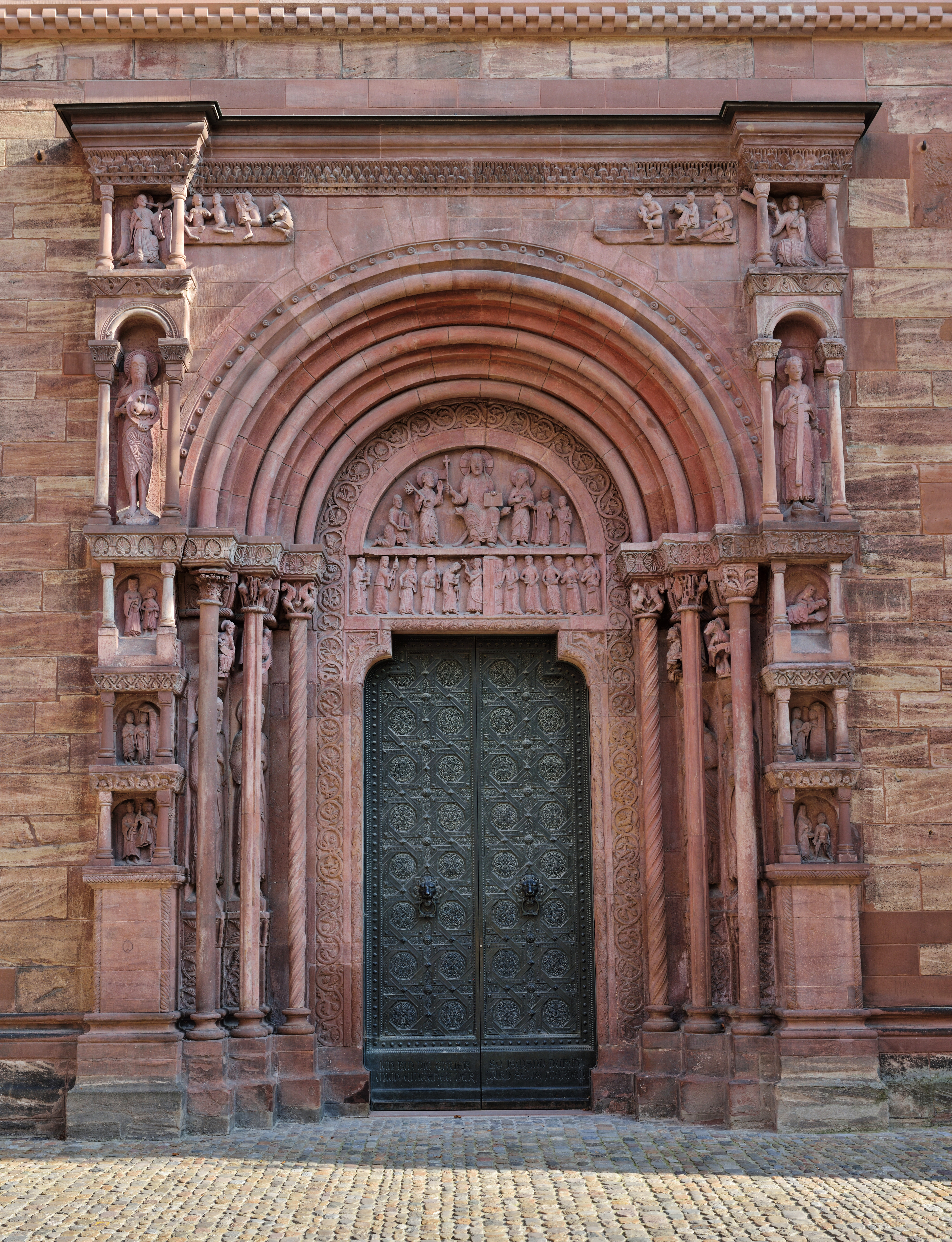 Gallus Gate at Minster of Basel